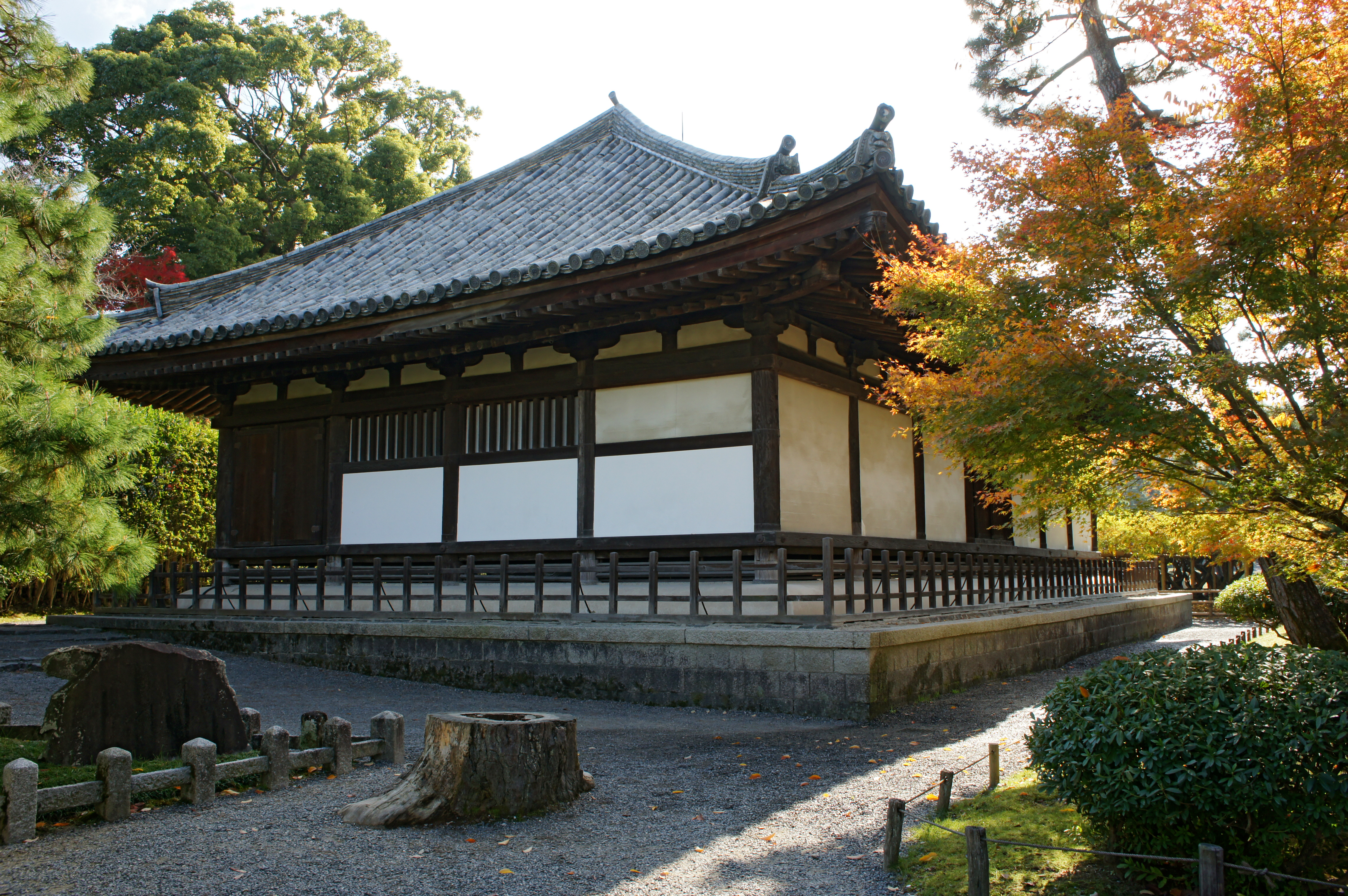 Byōdō-in in Uji, Kyoto prefecture, Japan. It was registered as part of the UNESCO World Heritage Site "Historic monuments of ancient Kyoto".